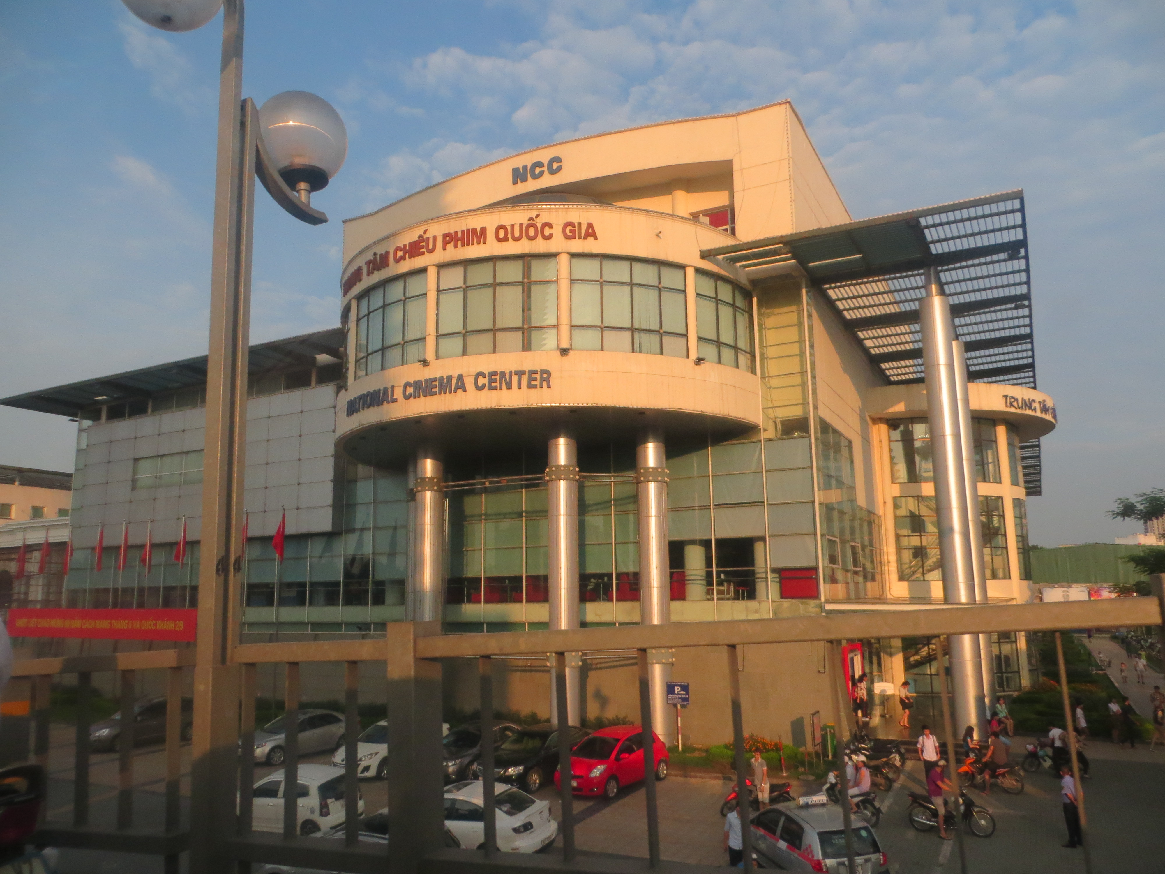 Vietnam National Cinema Center, Hanoi. Photo taken on the bridge over Láng Hạ - Thái Hà - Huỳnh Thúc Kháng Intersection.